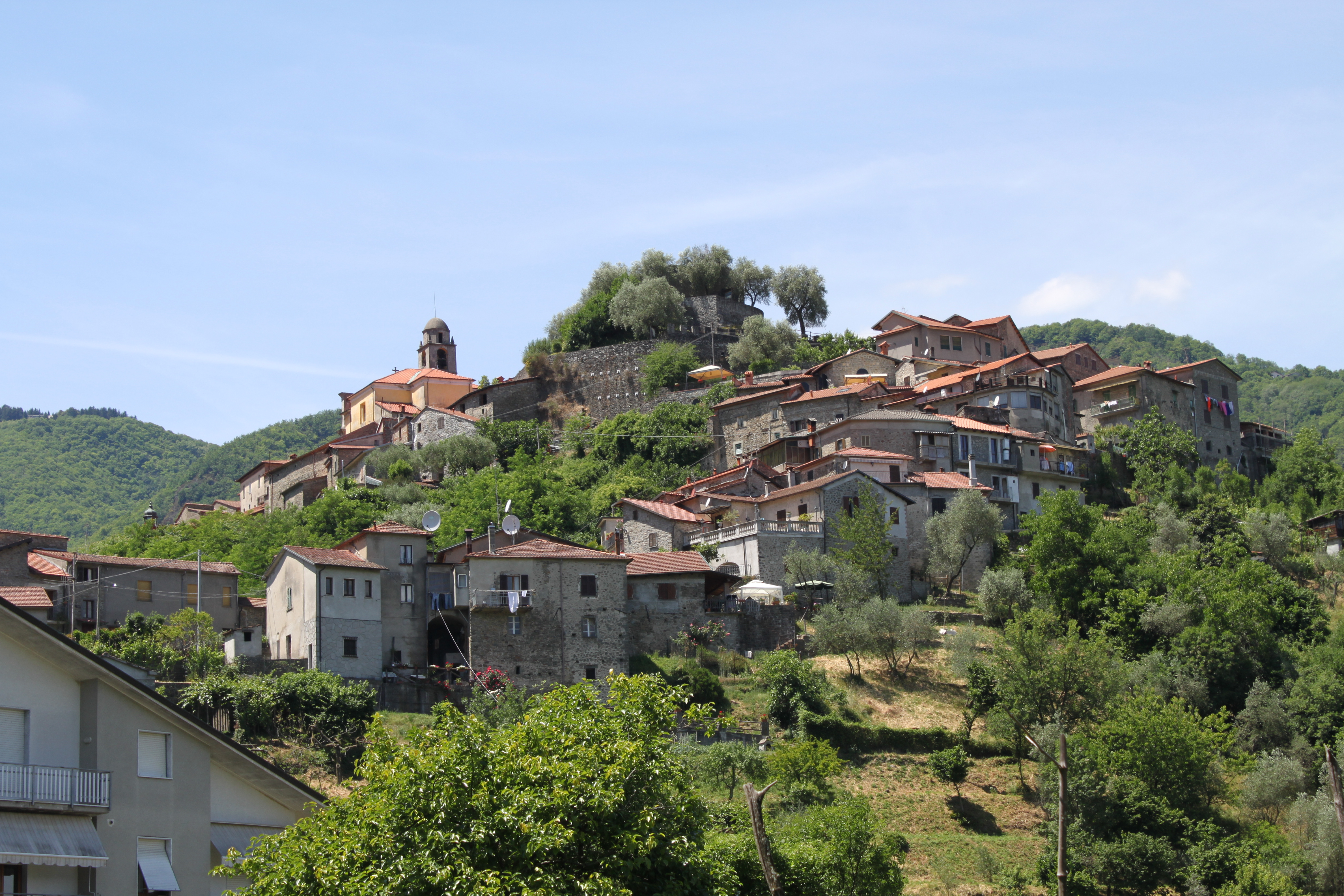 View of Mulazzo, a town in the province of Massa-Carrara